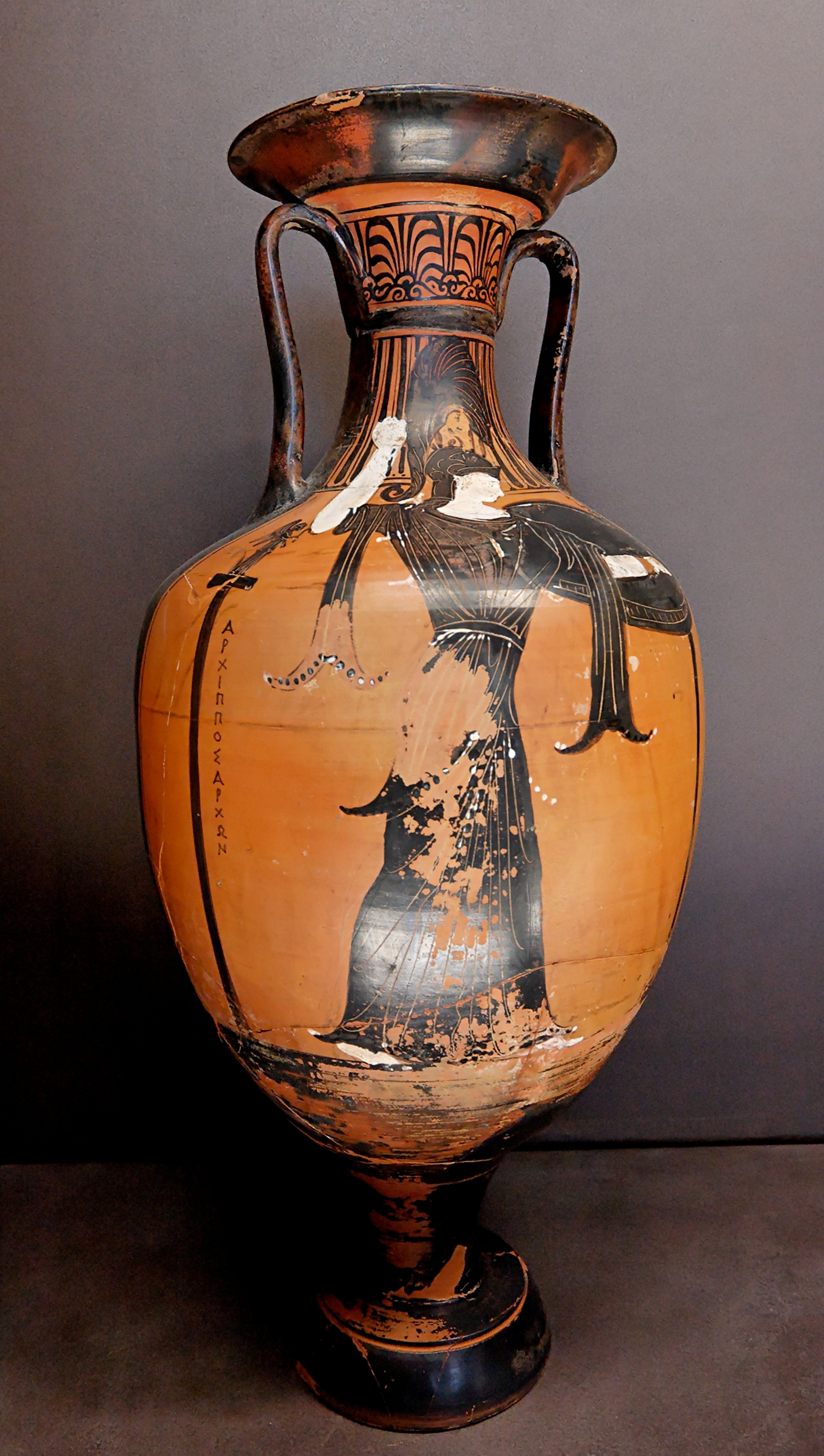 Athena, with the inscription “Archippos, archon”. Side A from a black-figure Panathenaic amphora, 321–320 BC. From Benghazi (Cyrenaica, now in Libya).